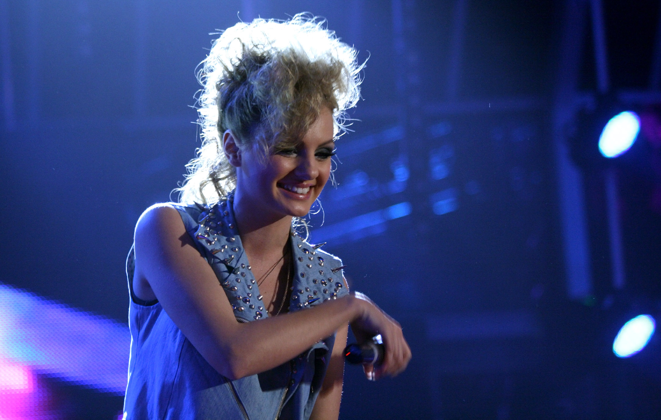 Alexandra Stan performing at the presentation of the Austrian Sportspersonalities of the Year 2011 (Eventhotel Pyramide in Vösendorf, Lower Austria).